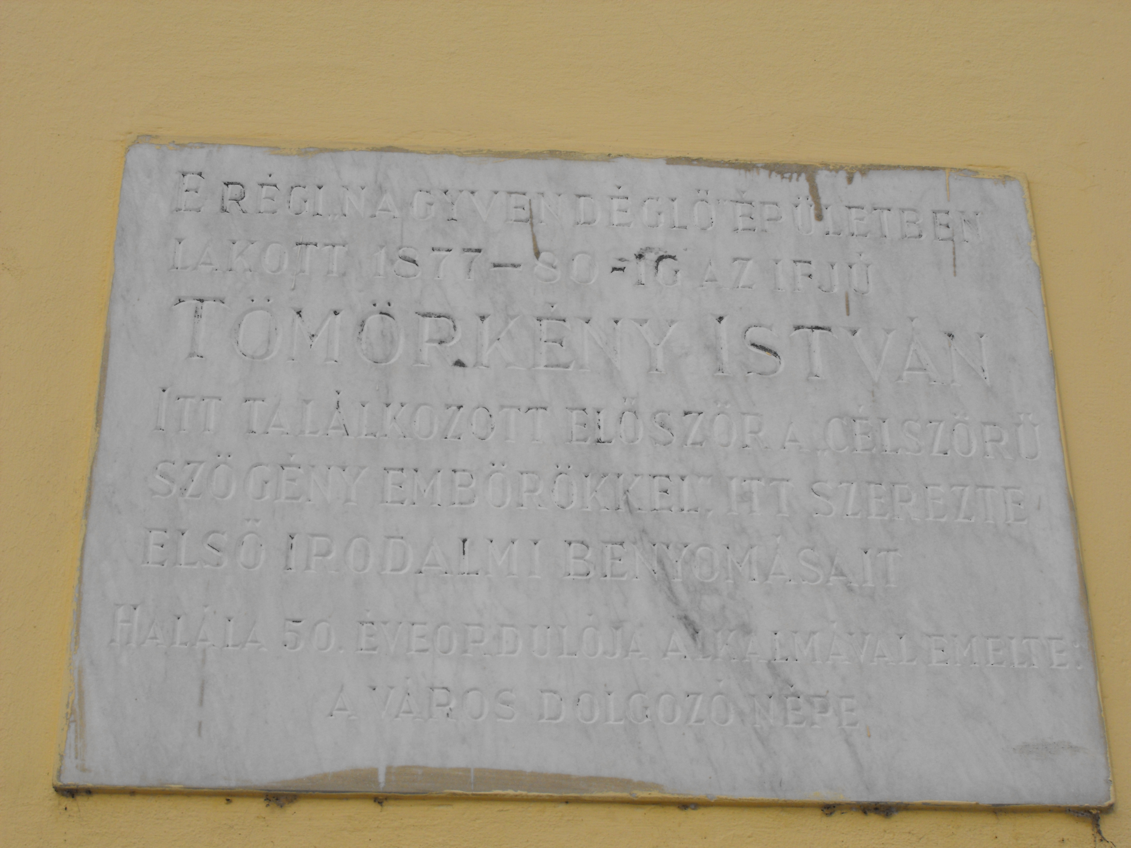 Memorial tablet of István Tömörkény, writer in Makó, Hungary.